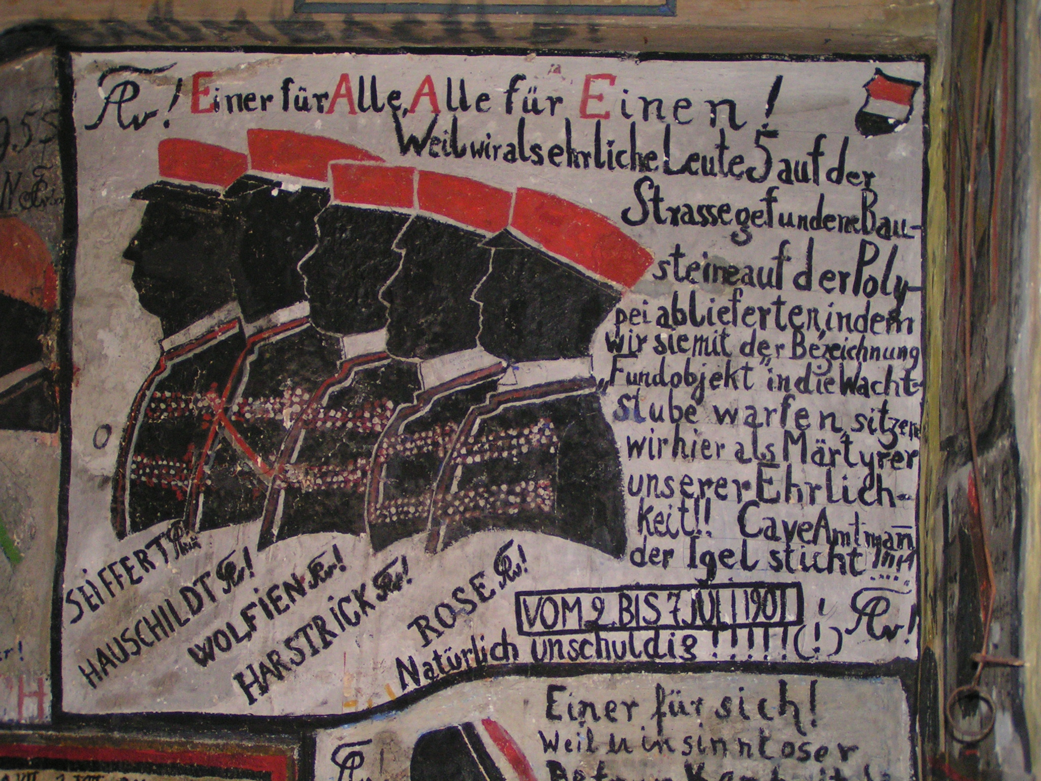 University of Heidelberg, the Studentenkarzer ("student prison"), wall paintings of members of the Heidelberg students fraternity "Burschenschaft Allemannia". Text: One for all, all for one! Because we as honest people brought 5 bricks we found on the street to the polyps (police) station, marked them "lost property", and threw them through the window, we sit here as martyrs of our honesty!! Beware officer! The hedgehog stiches!!!!! From 2nd to 7th July 1901 Innocent of course!!!!!(!)